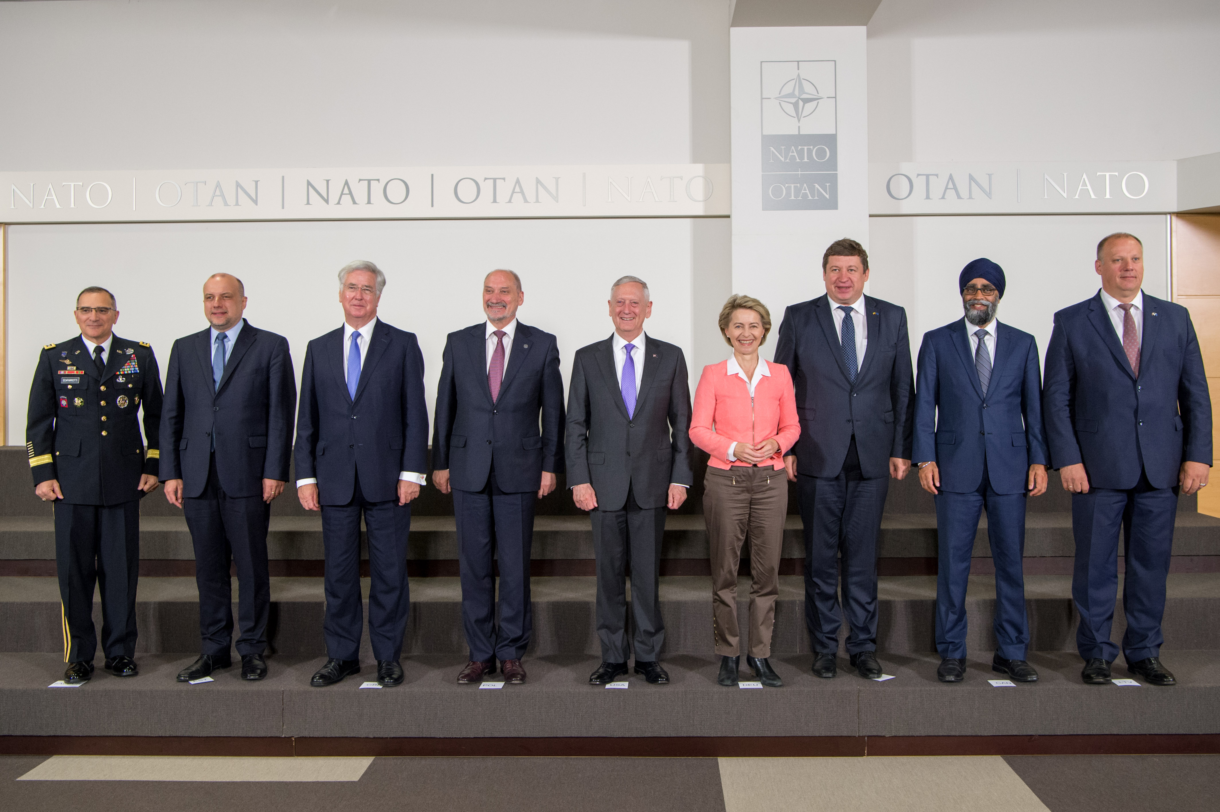 Supreme Allied Commander Europe General Curtis Scaparrotti; Juri Luik, Estonia’s defense minister; Michael Fallon, Britain's secretary of state for defense; Antoni Macierewicz, Poland’s defense minister; Secretary of Defense Jim Mattis; Ursula von der Leyen, Germany’s defense minister; Raimundas Karoblis, Lithuania’s defense minister; Harjit Sajjan, Canada’s defense minister; and Raimonds Bergmanis, Latvia’s defense minister; pose for a photo at the NATO Headquarters in Brussels, Belgium, June 29, 2017. (DOD photo by U.S. Air Force Staff Sgt. Jette Carr)